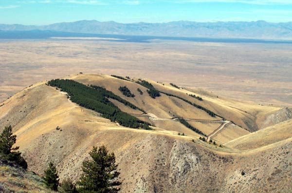 Big Southern Butte, Idaho, USA. A lava dome in the Snake River Plains, about 300.000 years old. It has been designated a National Natural Landmark